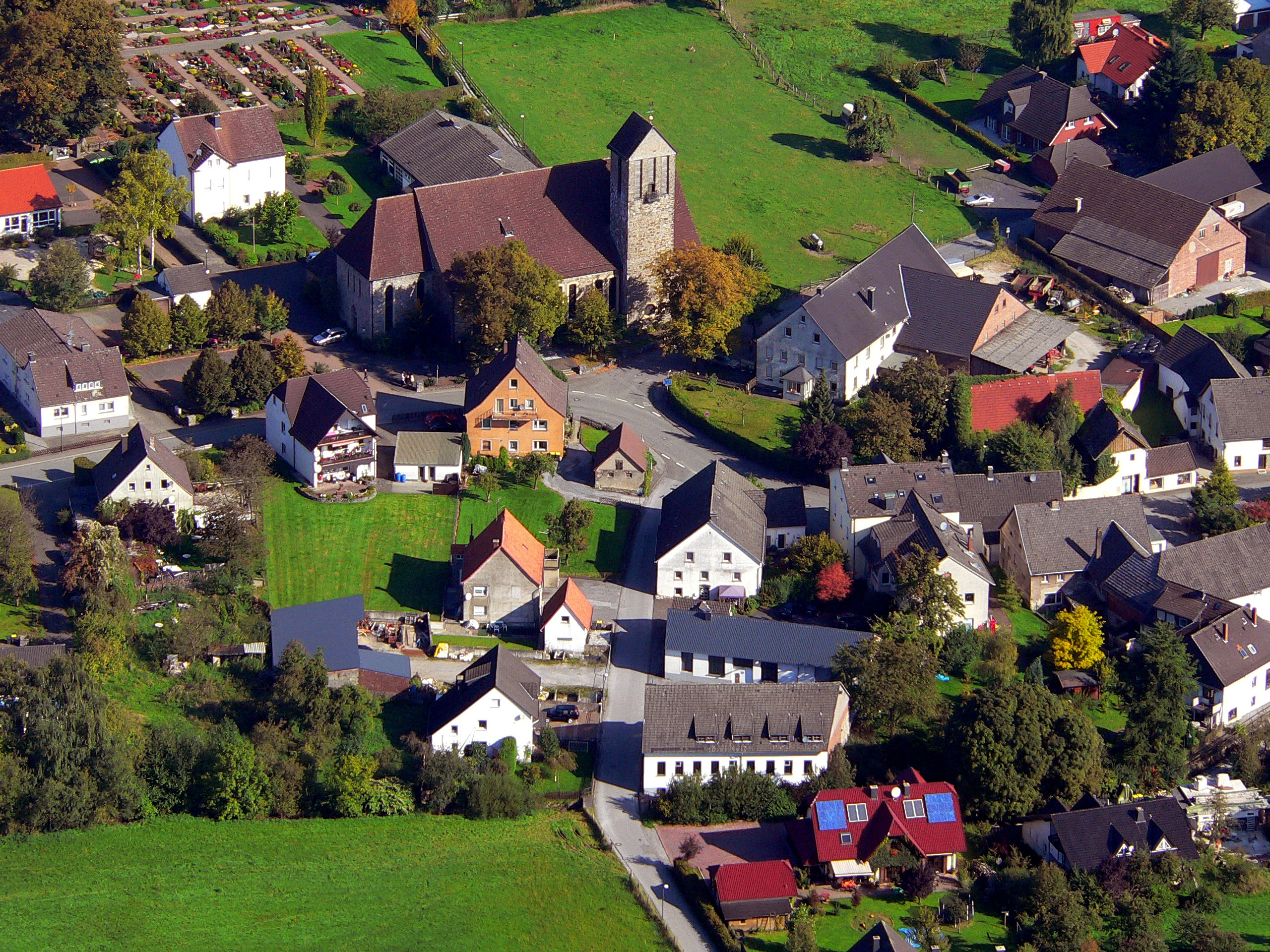 Garbeck, Germany